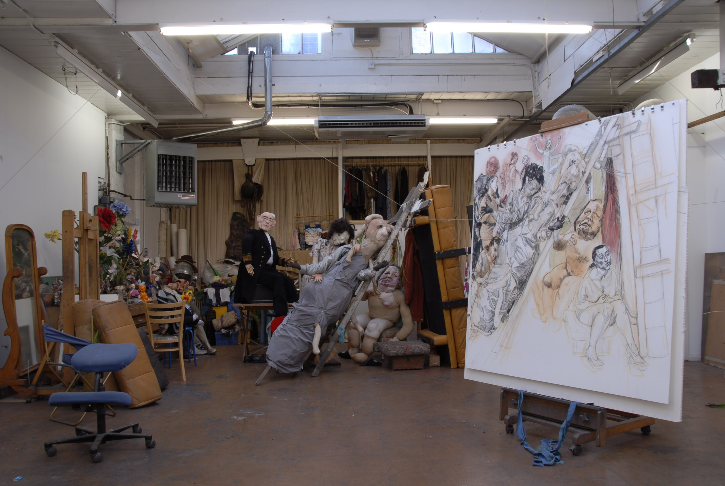 Paula Rego's Studio